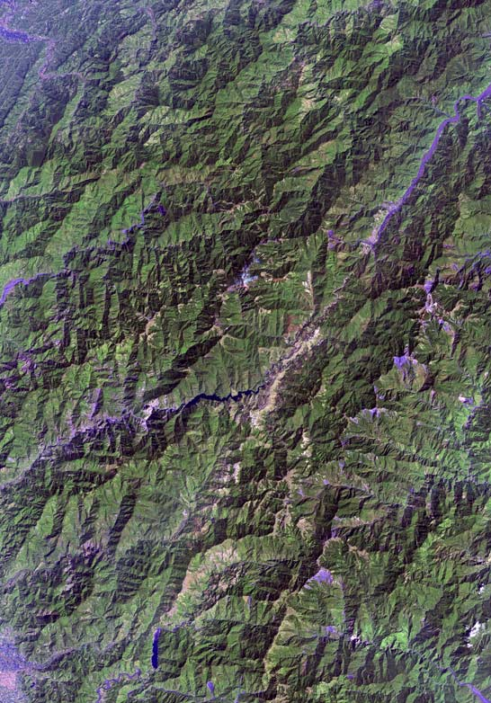 The raw satellite imagery shown in these images was obtain from NASA and/or the US Geological Survey. Post-processing and production by Temperate rainforests in Yu Shan National Park, with Jade montain, in Taiwan.